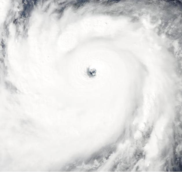 Nida being declared as a category 4 super typhoon.